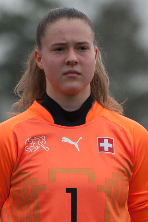 UEFA European Women's U17 Championship elite round Germany vs. Switzerland, 2016-03-19